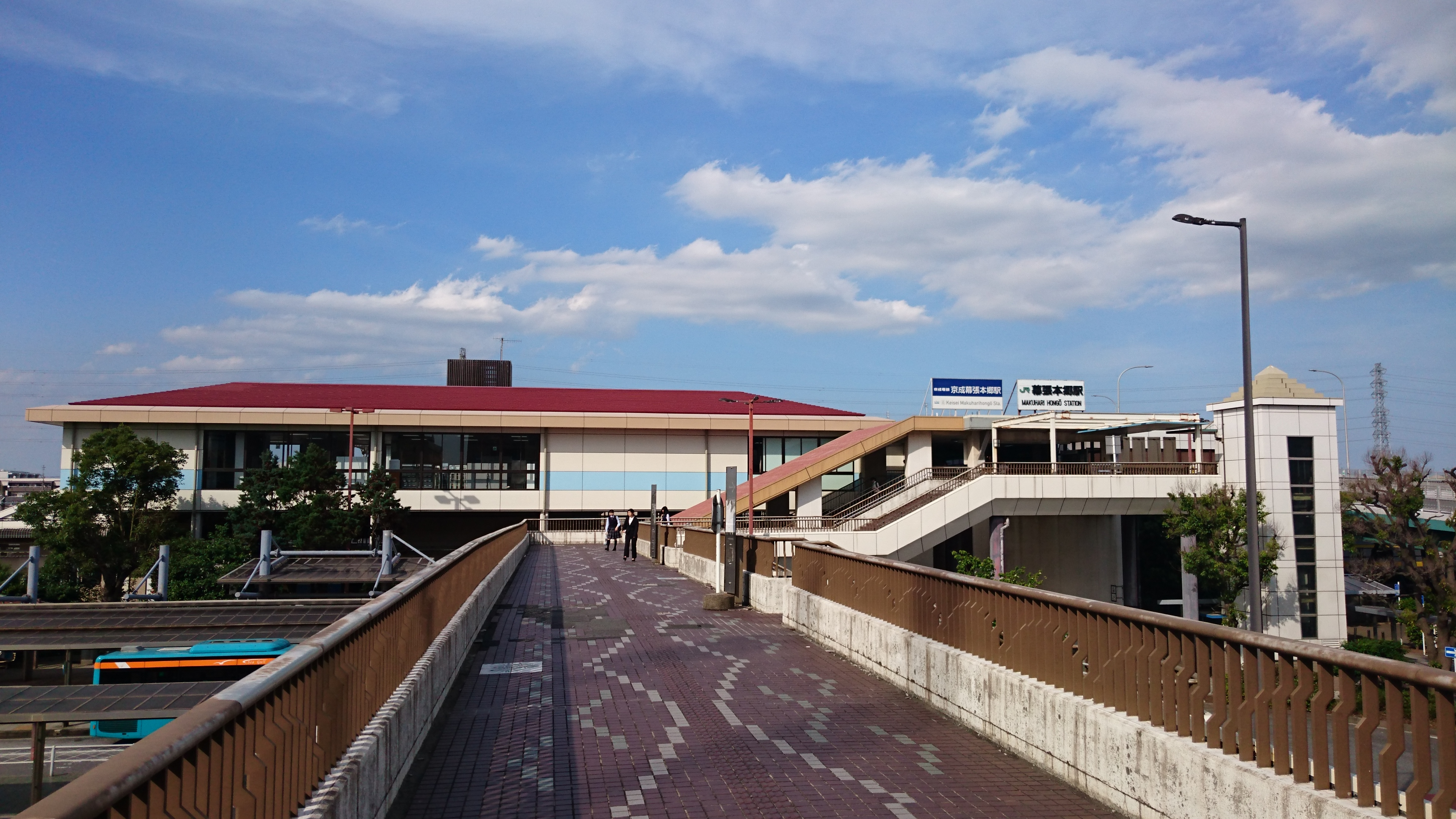 South Entrance of Makuharihongō Station